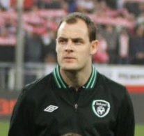 Anthony Stokes for Ireland against Poland 2013.